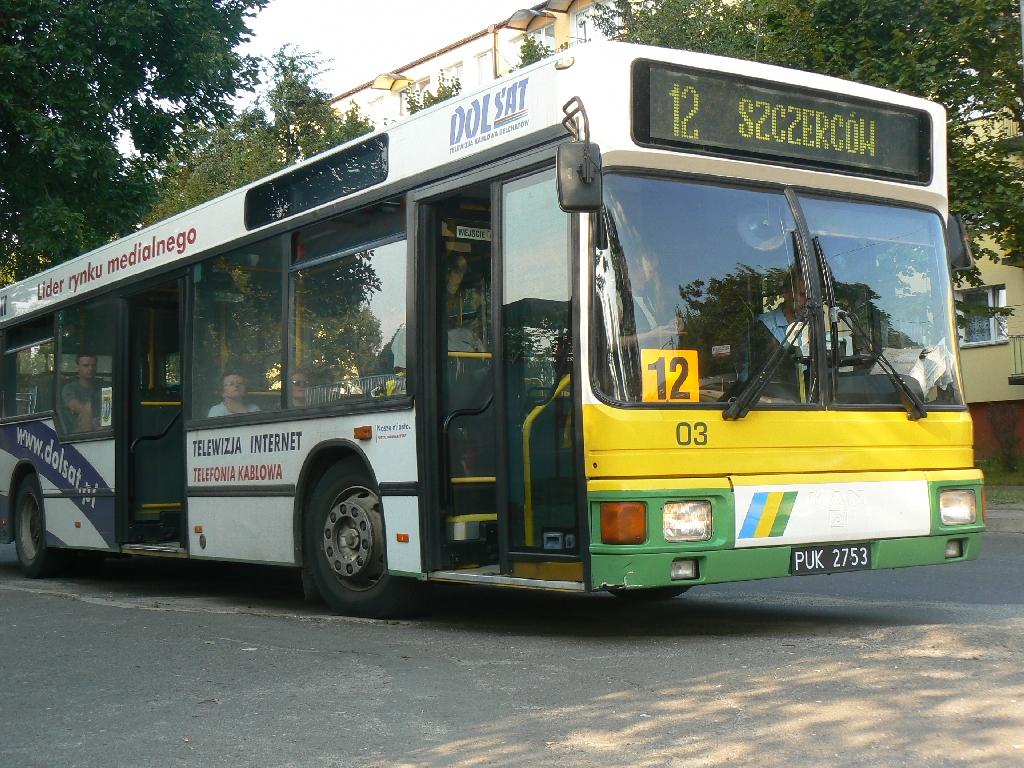 MAN NL222 in Bełchatów, Poland. Year built 1998. MZK Bełchatów company.